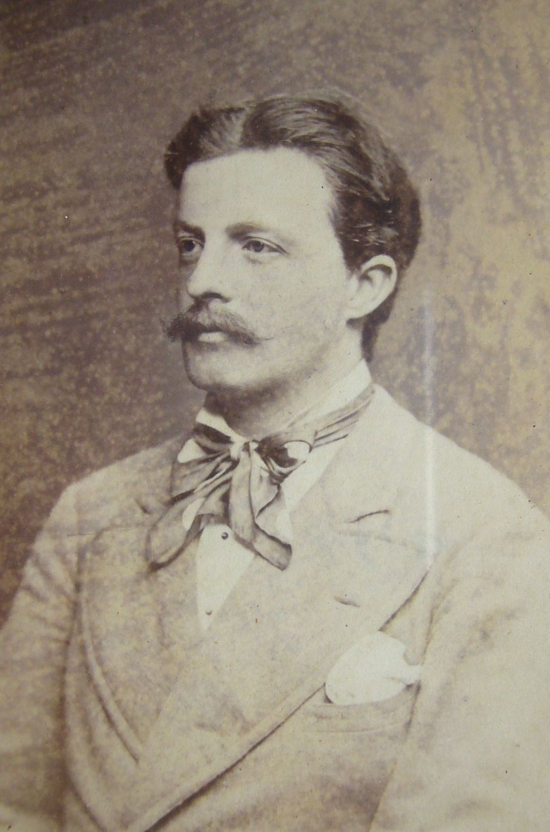 Photographic portrait of Georg Plehn